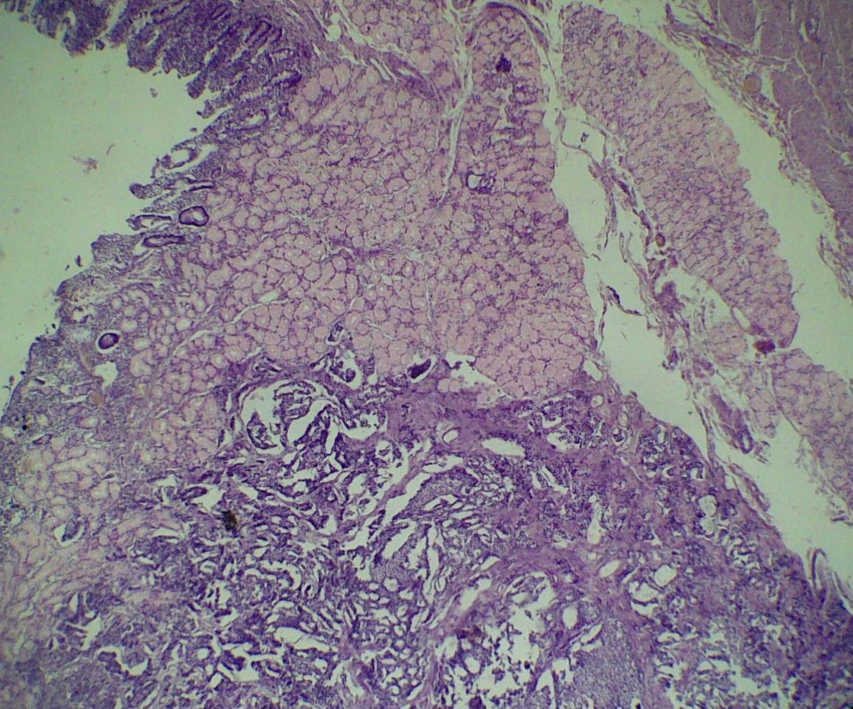 Gastric carcinoid